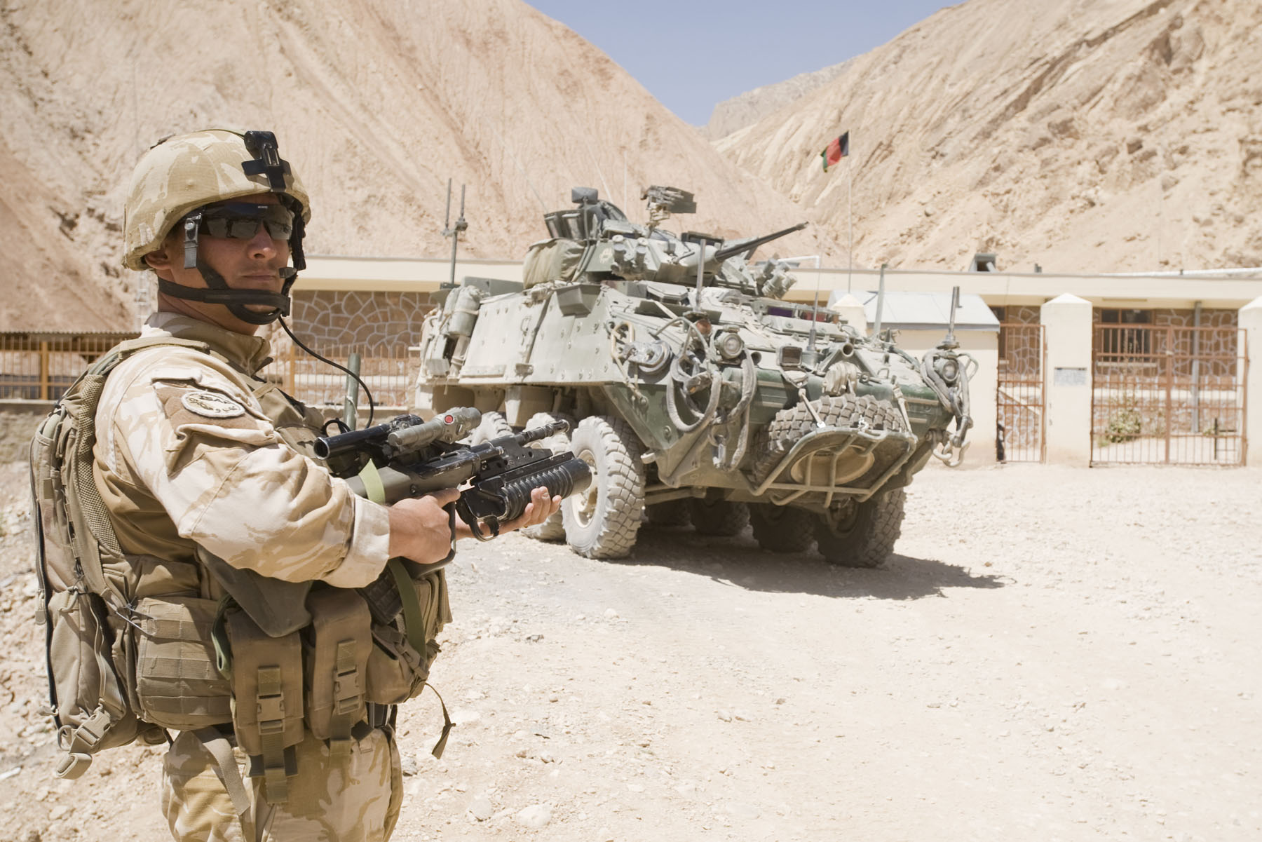 On patrol in North East Bamyian with Kiwi Team One, performing both mounted and dismounted patrols The NZ PRT Bamyan is tasked with maintaining security in Bamyan Province. It does this by conducting frequent presence patrols throughout the province. The PRT also supports the provincial and local government by providing advice and assistance to the Provincial Governor, the Afghan National Police and district sub-governors. Thirdly the NZ PRT identifies, prepares and provides project management for NZAID projects within the region. These are contracted to Afghan companies who hire local workers to assist with the completion of these projects. Thus each project provides new amenities, and also provides employment in the region.